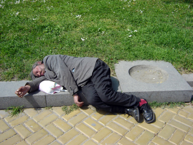 Homeless in Sofia, Bulgaria